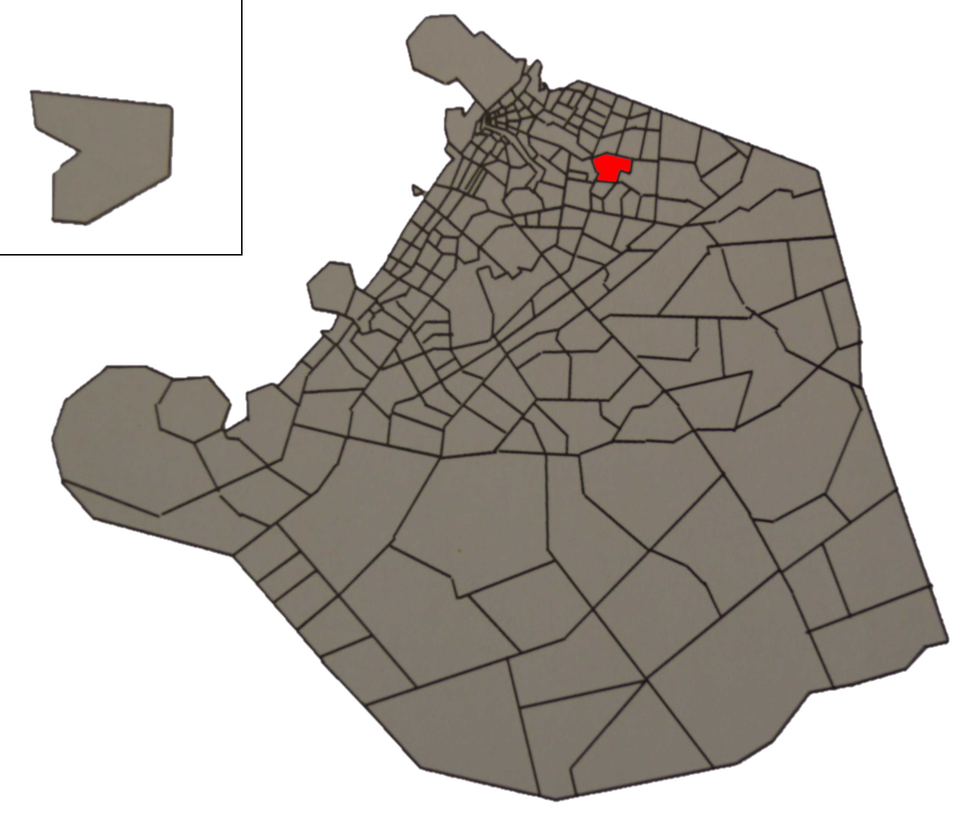 Map made from base map of User:Tr!sie, highlighting location of Mirdif neighborhood within Dubai Emirate, United Arab Emirates